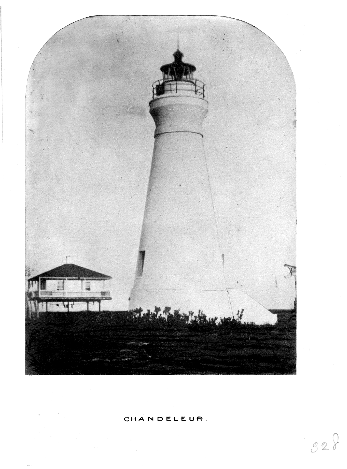 Chandeleur Island Light, LA, 1856 tower